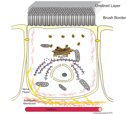 Enterocyte showing Brush border and unstirred layer